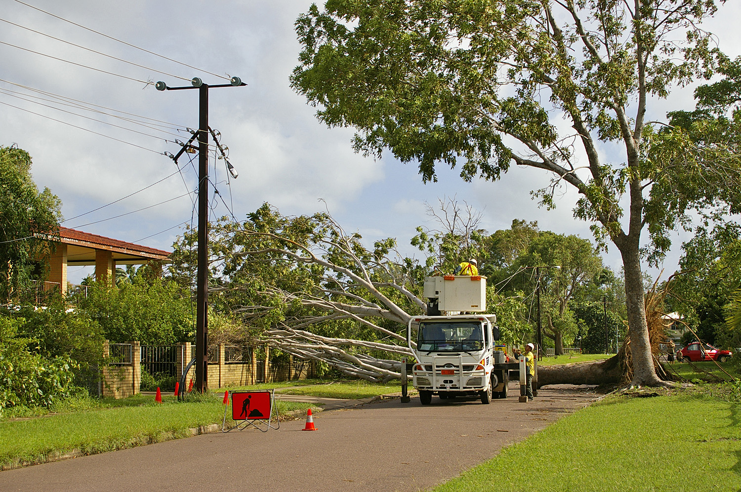 Power and Water start removing an large African Mahogany (Khaya Senegalensis) which downed powerlines which also damaged the support arm which hold the powerlines. 15,000 homes and business were left without power due to uprooted trees which were mostly caused by African Mahoganys.